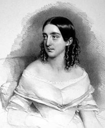 Erminia Frezzolini-1845-detail